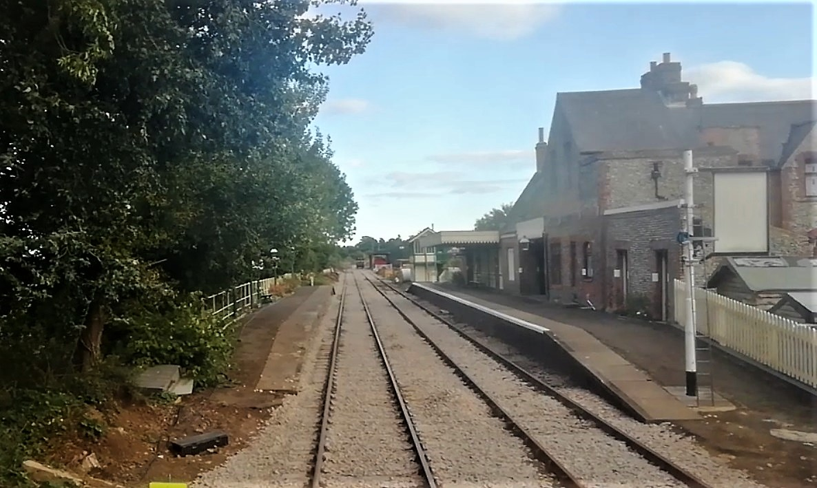 Hardingham station, late Summer 2018, with second track restored and operational.